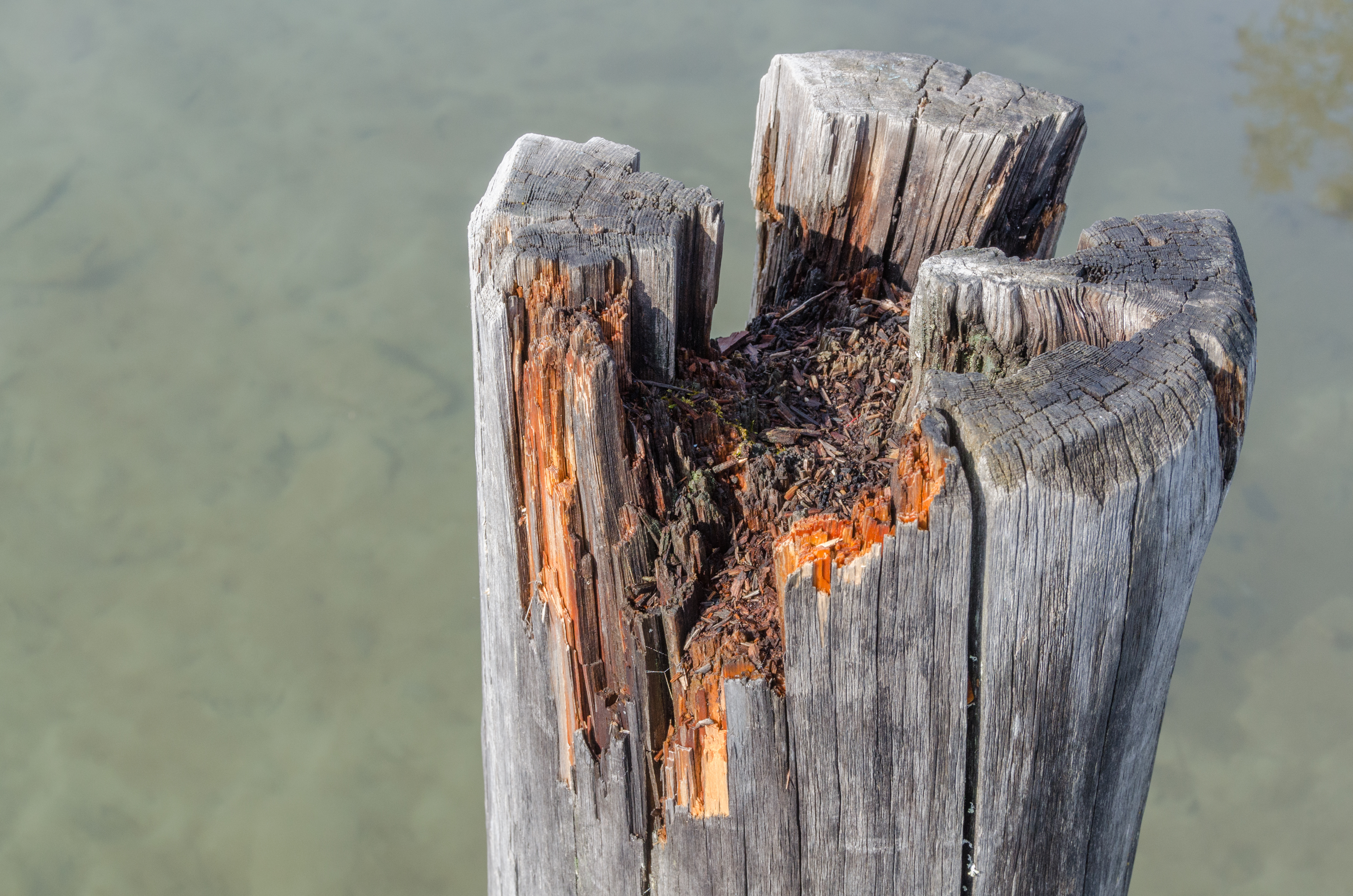 Dry rot caused by Serpula lacrymans at the pier „Landspitz“,municipality Poertschach on the Lake Woerth, district Klagenfurt Land, Carinthia, Austria, EU